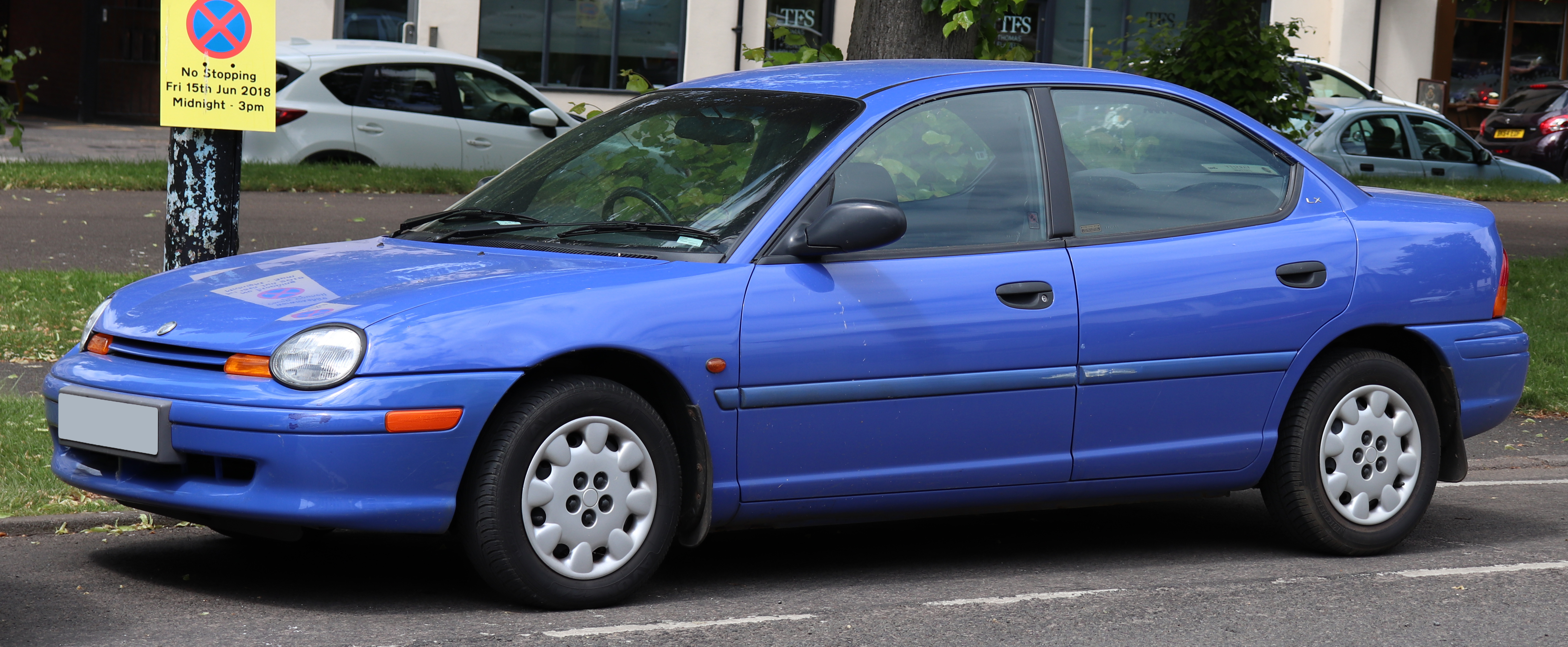 1997 Chrysler Neon LX Automatic 2.0 Front Taken in Leamington Spa